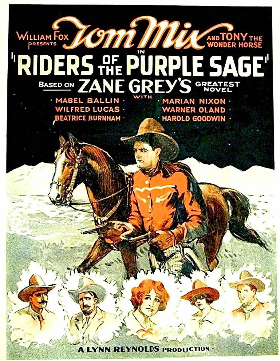 Movie poster for the American western film Riders of the Purple Sage (1925).